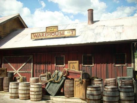 The outside of the ride Powder Keg